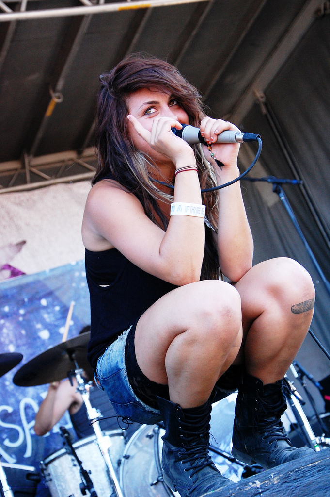 Sierra Kusterbeck from VersaEmerge at Warped 2010 in Hillsboro, Oregon.